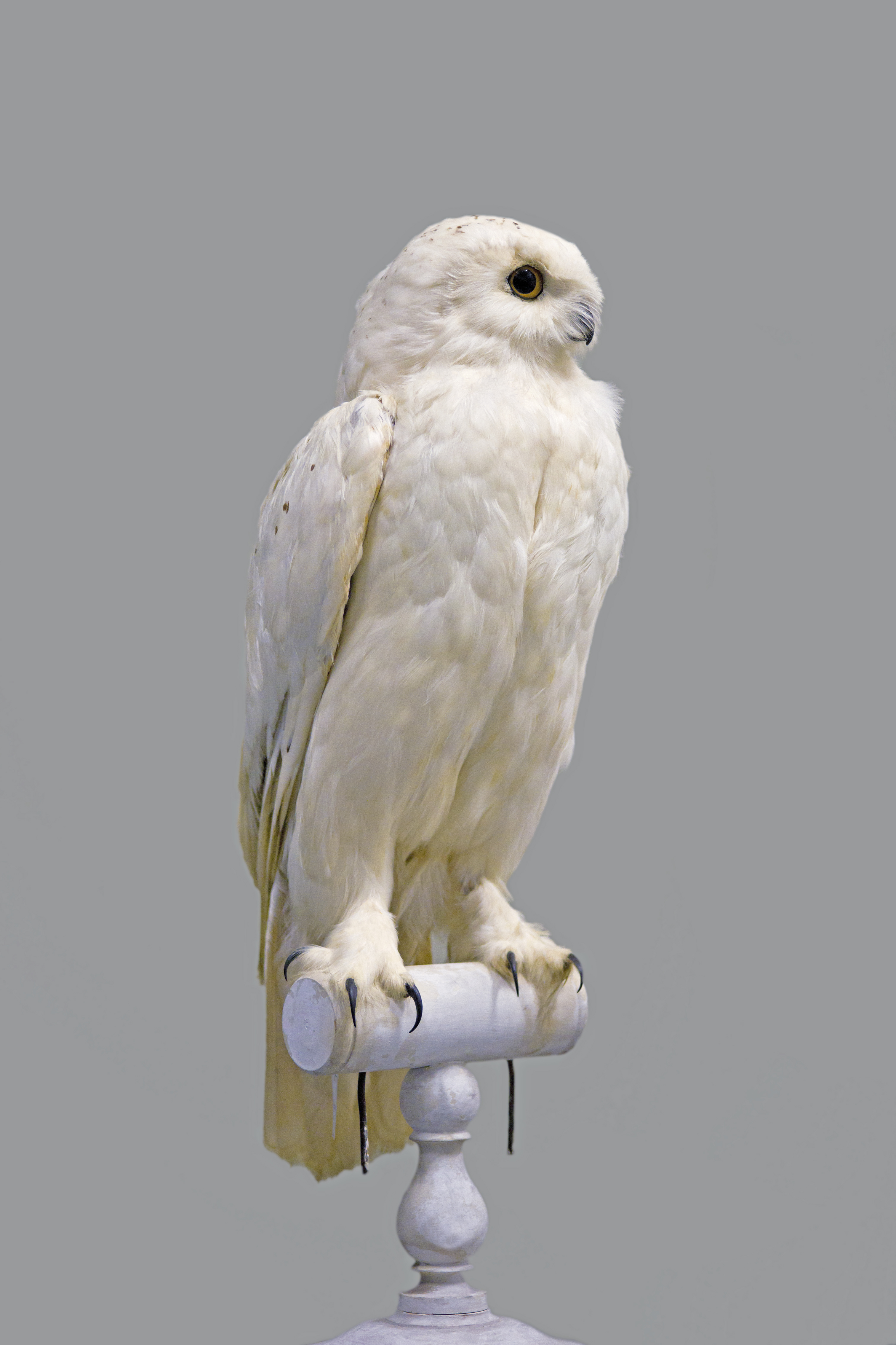 Snowy Owl, adult male, collected by Mr Dode in 1807, part of the collection Besaucèle. Locality: Astrakhan Oblast, Russia.